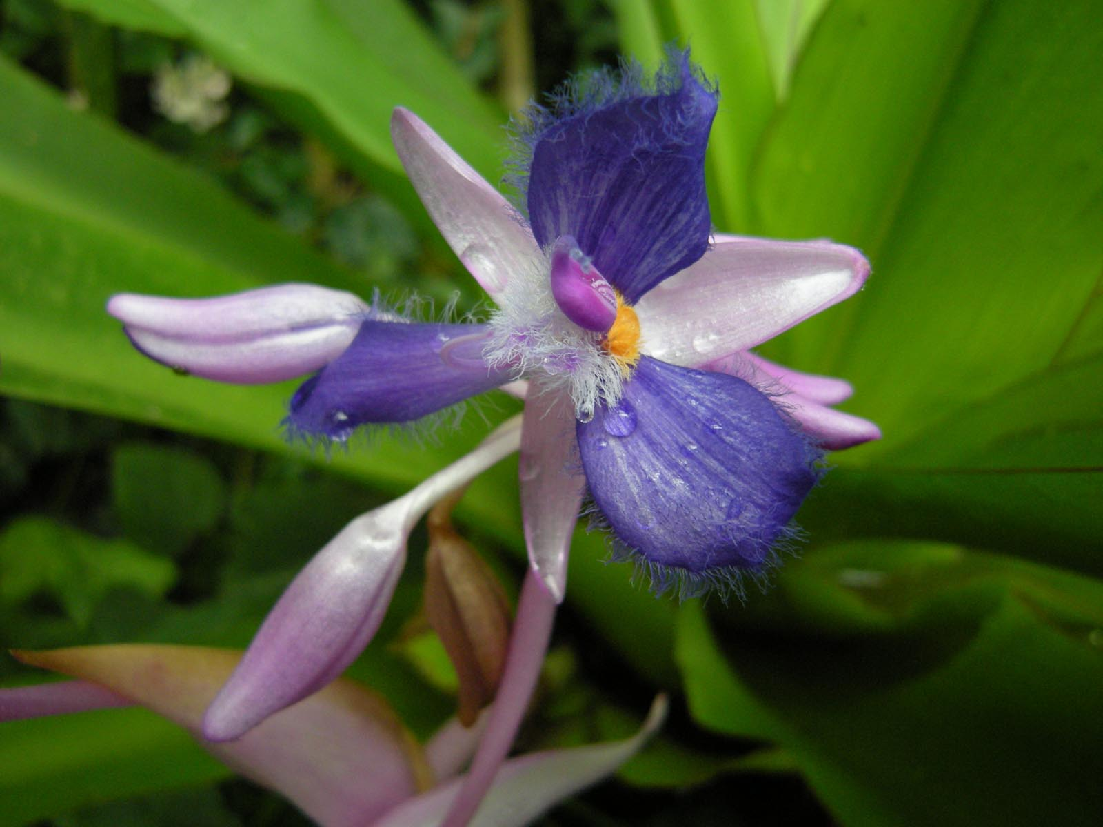 Cochliostema jacobjanum inflorescence, photographed in Palm House (Schönbrunn), and dedicated to any-and-all 'gentle' people.